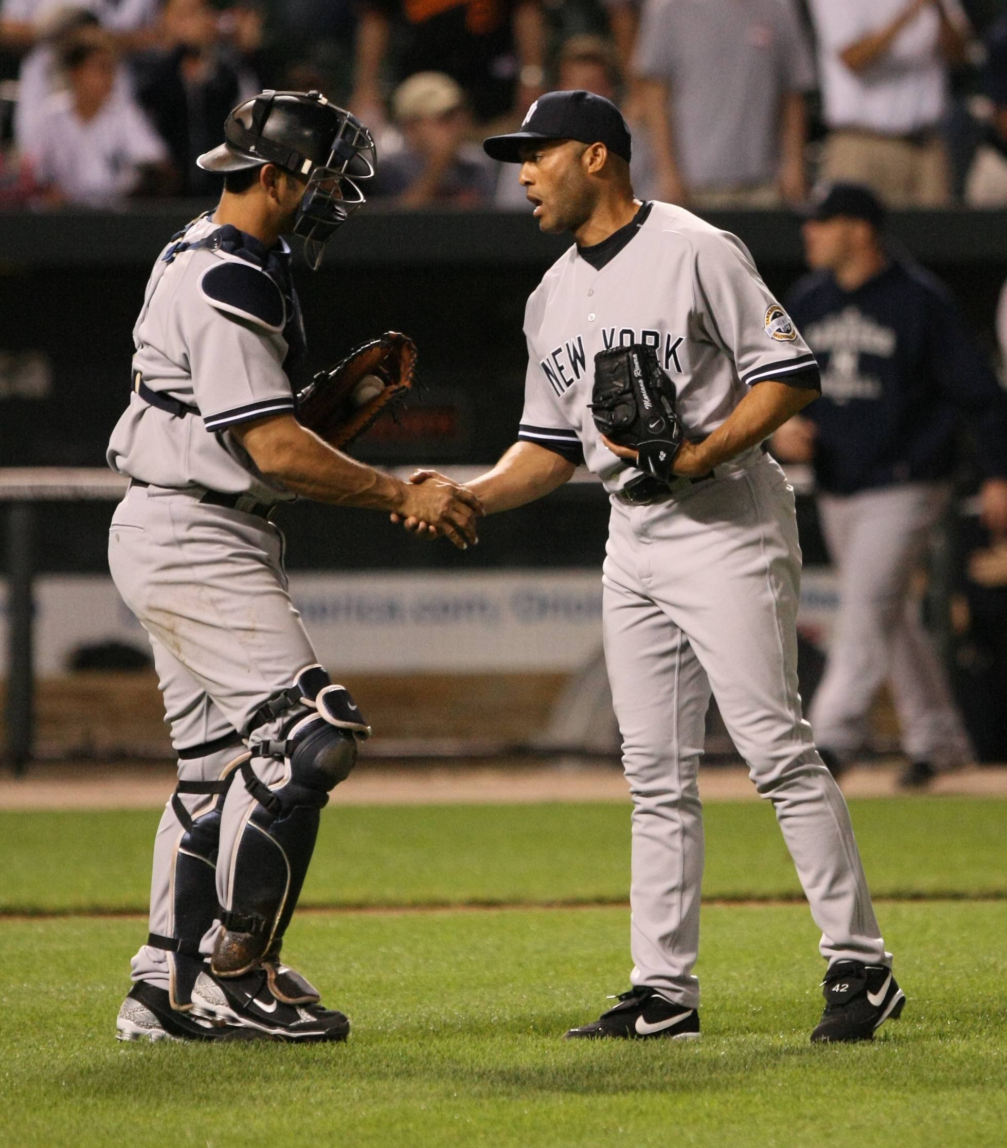 Mariano Rivera celebrates a victory against the Baltimore Orioles on August 31, 2009 by shaking catcher Jorge Posada's hand.